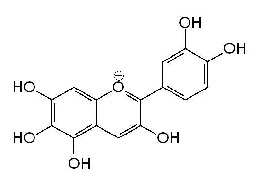 Chemical structure of 6-hydroxycyanidin